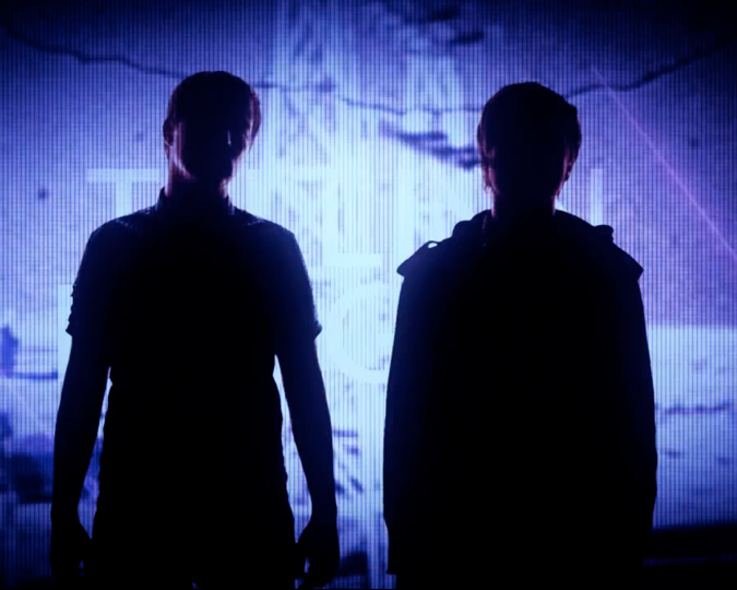 Tallinn Daggers video still